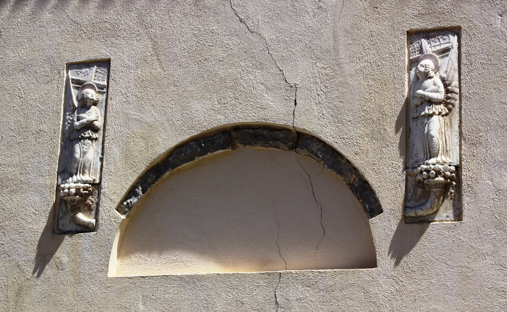 Marble Angels in Maratea.